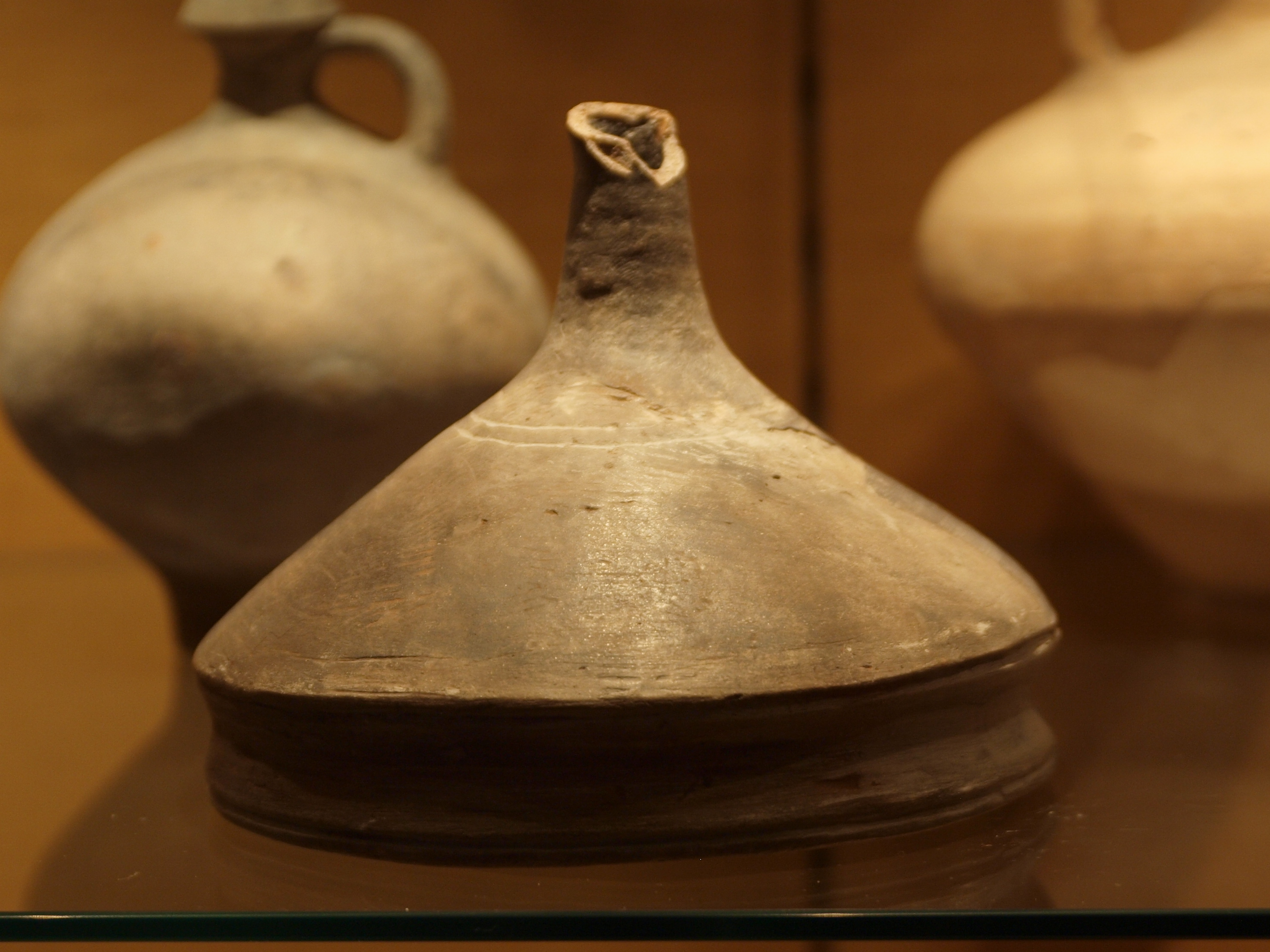 A Roman Kitchen funnel with broken tip. Found at Saalburg near Bad Homburg vor der Höhe, Hesse, Germany. Dated to ca. 1st to 3rd century AD.